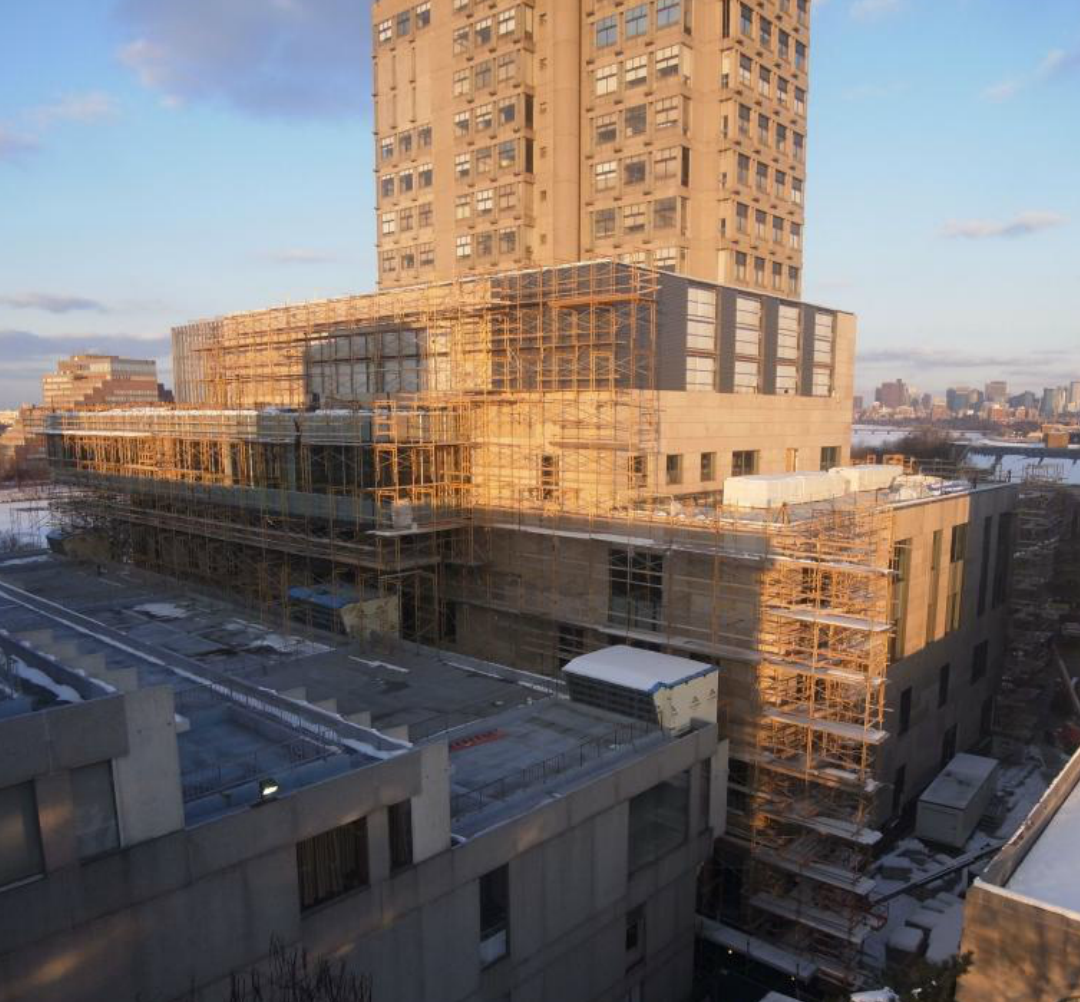 Construction of the Sumner M. Redstone Building at Boston University School of Law